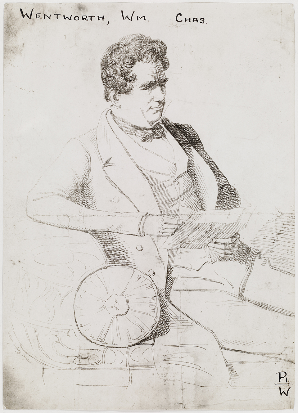 Sketch c1848 of Australian William Charles Wentworth